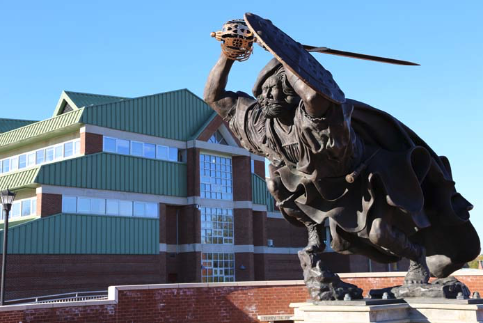 Fighting Scot Statue